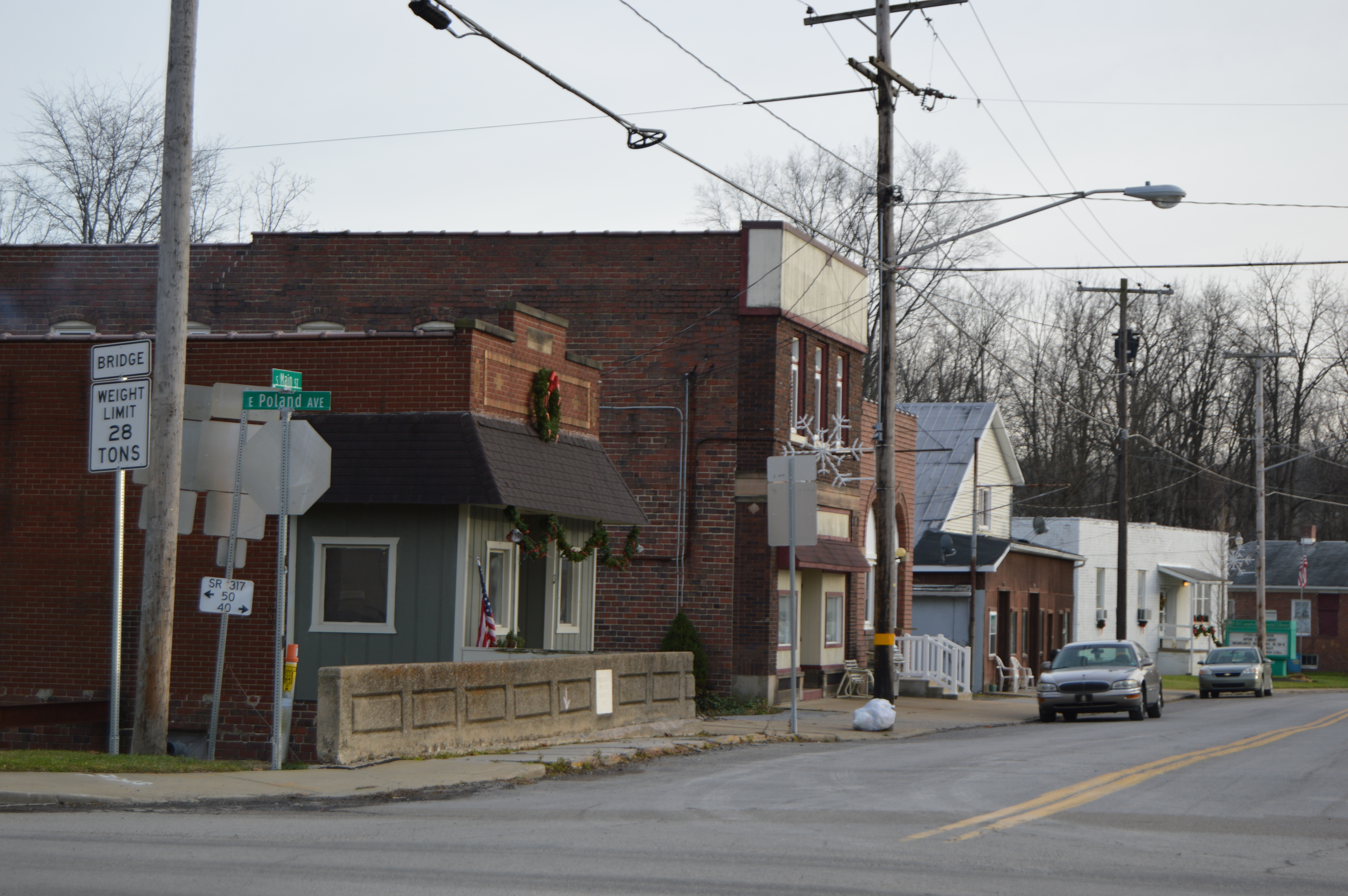 Buildings on the eastern side of Main Street, seen from the Poland Avenue intersection, in Bessemer, Pennsylvania, United States.